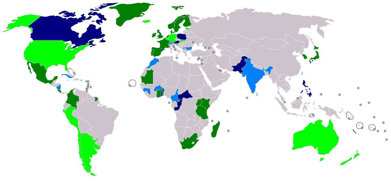 dark green - members, 2012 MoU; light green - members; dark blue - associates, 2012 MoU; light blue - associates Other information Based on File:World map model.png. Membership lists from [1],[2]